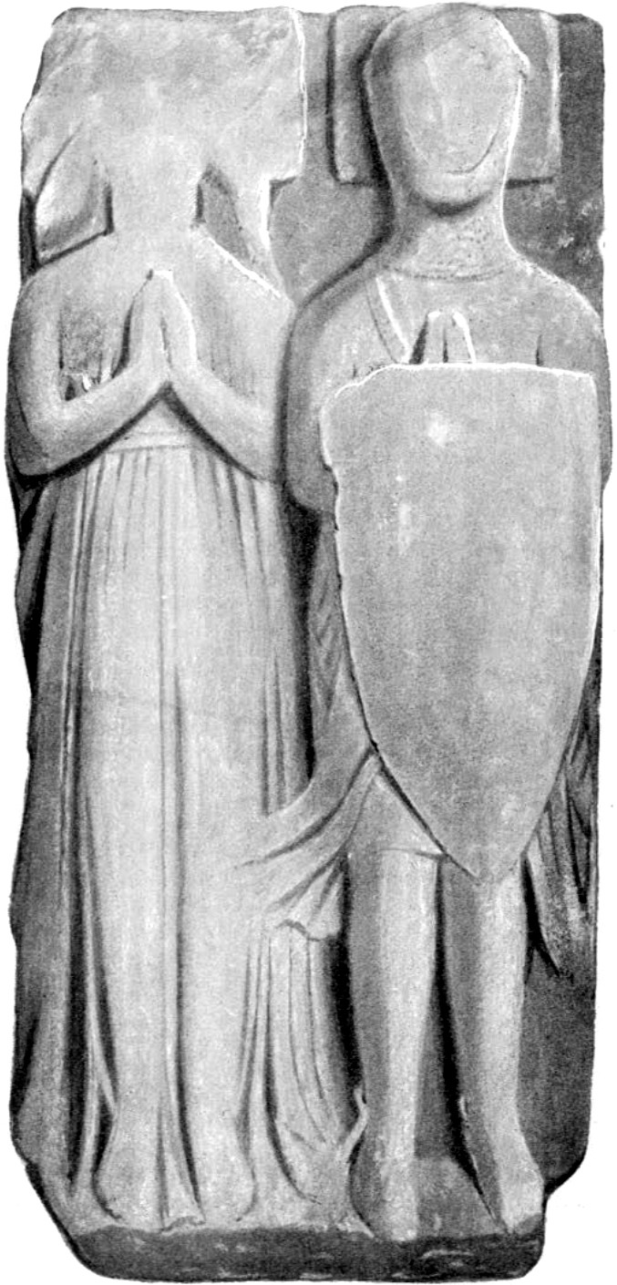 Effigy of Maol Íosa, Earl of Strathearn (died 1271) and one of his wives, perhaps Maria de Ergadia (died 1302).